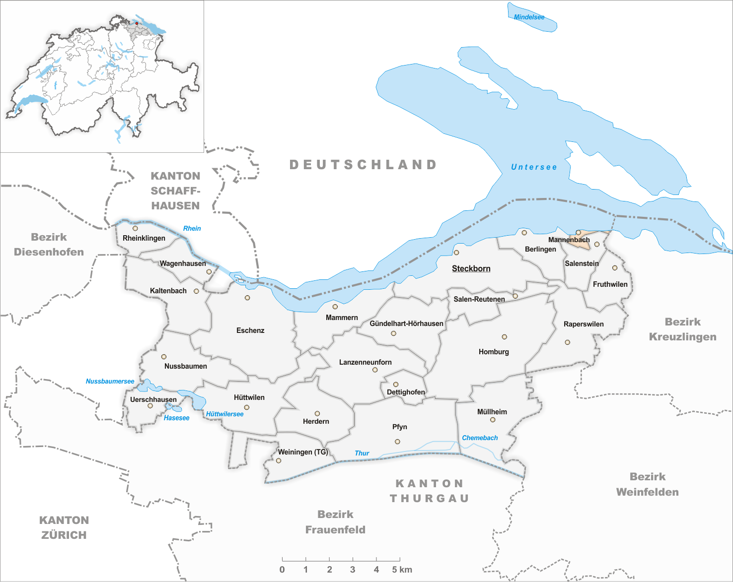 Municipality Mannenbach